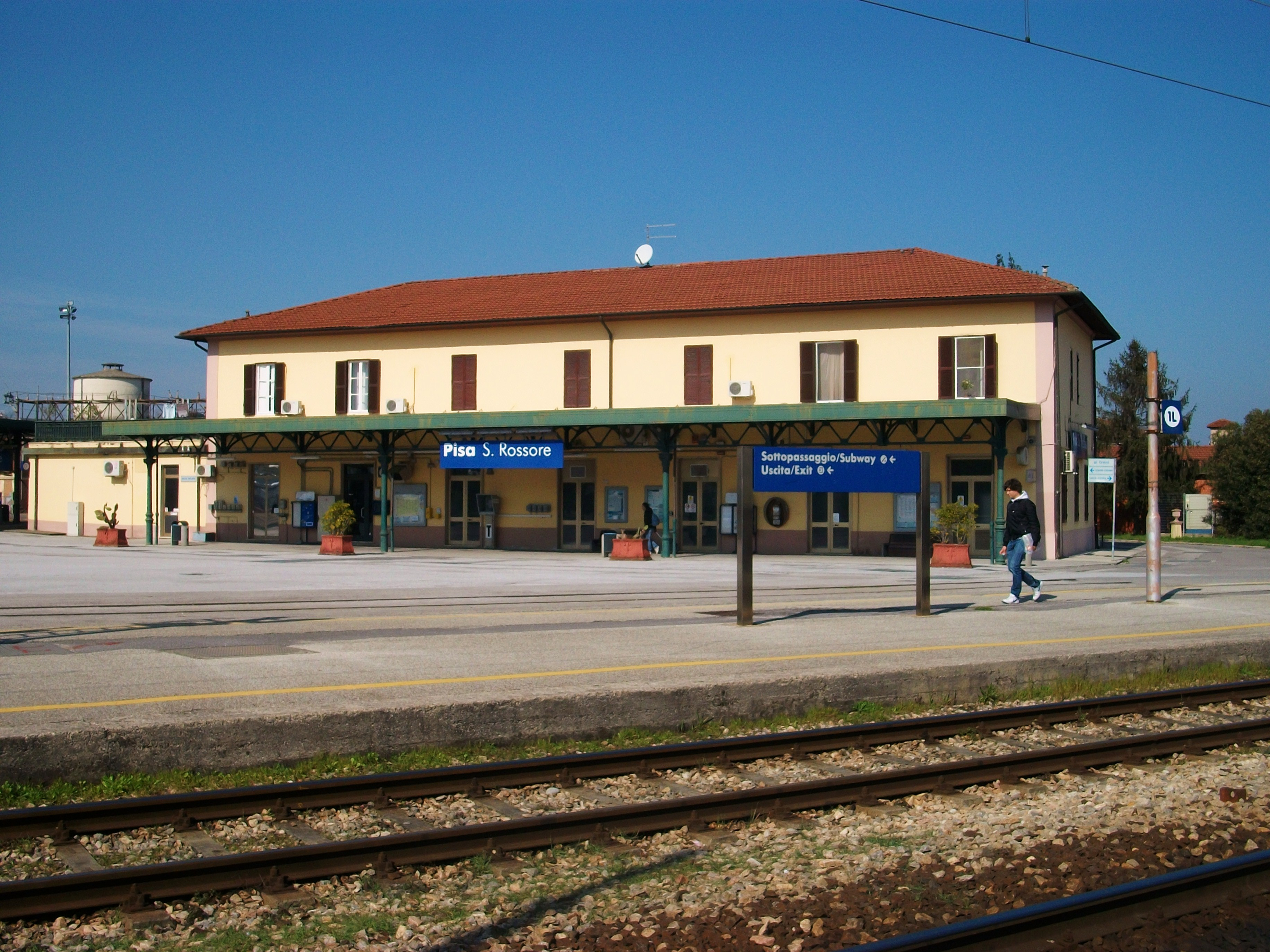 Pisa San Rossore train station.